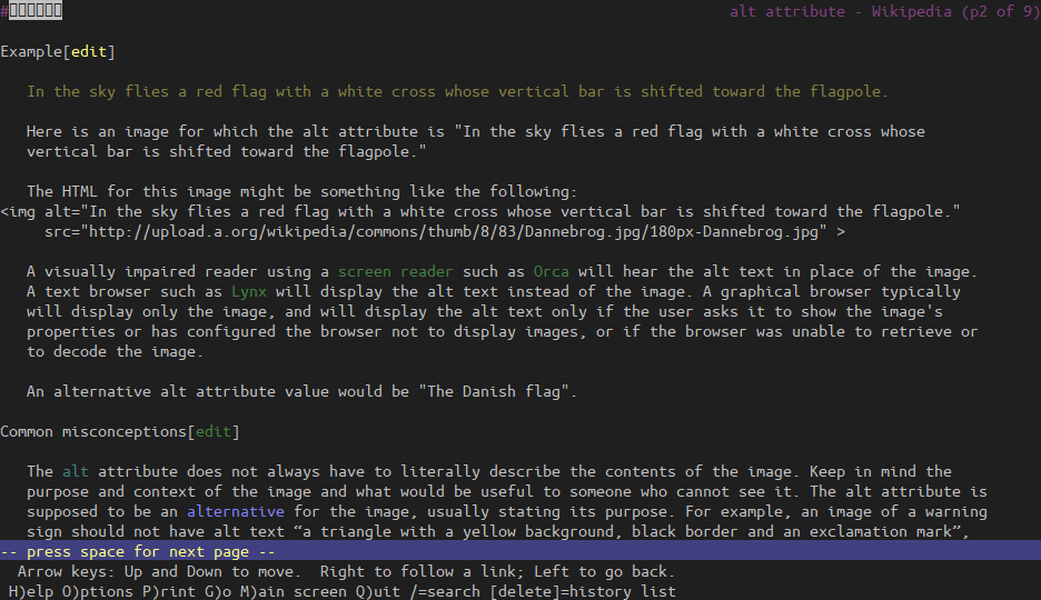 A screenshot of the page [1] rendered in the Lynx web browser, to showcase how the alt HTML attribute is handled in non-graphic web browsers.